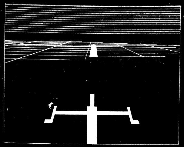 HiMAT Remotely Piloted Aircraft Synthetic Vision Display. This is a synthetic out-the cockpit-window 3D perspective view created using a visual display. The object in the foreground is a 3D model of the HiMAT nose probe, and in the distance we see terrain and a runway.